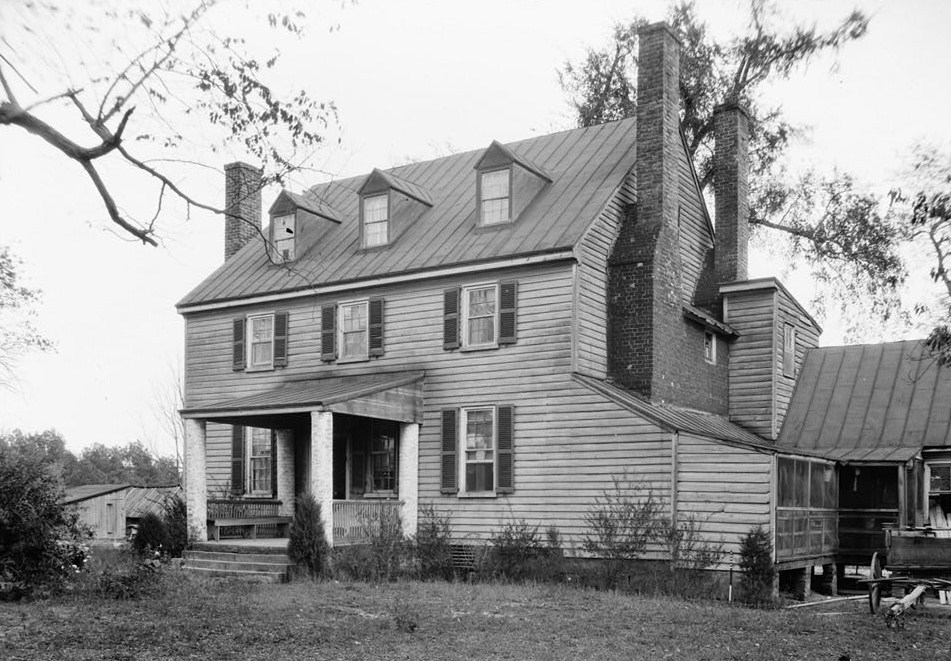 Roseville, State Route 604 vicinity, Mangohick vicinity (King William County, Virginia) cropped This file comes from the Historic American Buildings Survey (HABS), Historic American Engineering Record (HAER) or Historic American Landscapes Survey (HALS). These are programs of the National Park Service established for the purpose of documenting historic places. Records consist of measured drawings, archival photographs, and written reports. When reusing please credit: Library of Congress, Prints & Photographs Division, VA,51-MANG.V,3-1 This tag does not indicate the copyright status of the attached work. A normal copyright tag is still required. See Commons:Licensing for more information. English | +/− This work is in the public domain in the United States because it is a work prepared by an officer or employee of the United States Government as part of that person’s official duties under the terms of Title 17, Chapter 1, Section 105 of the US Code. See Copyright. Note: This only applies to original works of the Federal Government and not to the work of any individual U.S. state, territory, commonwealth, county, municipality, or any other subdivision. This template also does not apply to postage stamp designs published by the United States Postal Service since 1978. (See § 313.6(C)(1) of Compendium of U.S. Copyright Office Practices). It also does not apply to certain US coins; see The US Mint Terms of Use. This file has been identified as being free of known restrictions under copyright law, including all related and neighboring rights.